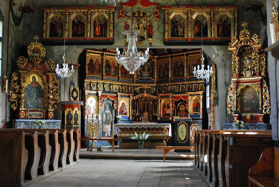 Bogusza Niżna (Poland), Greek Catholic church